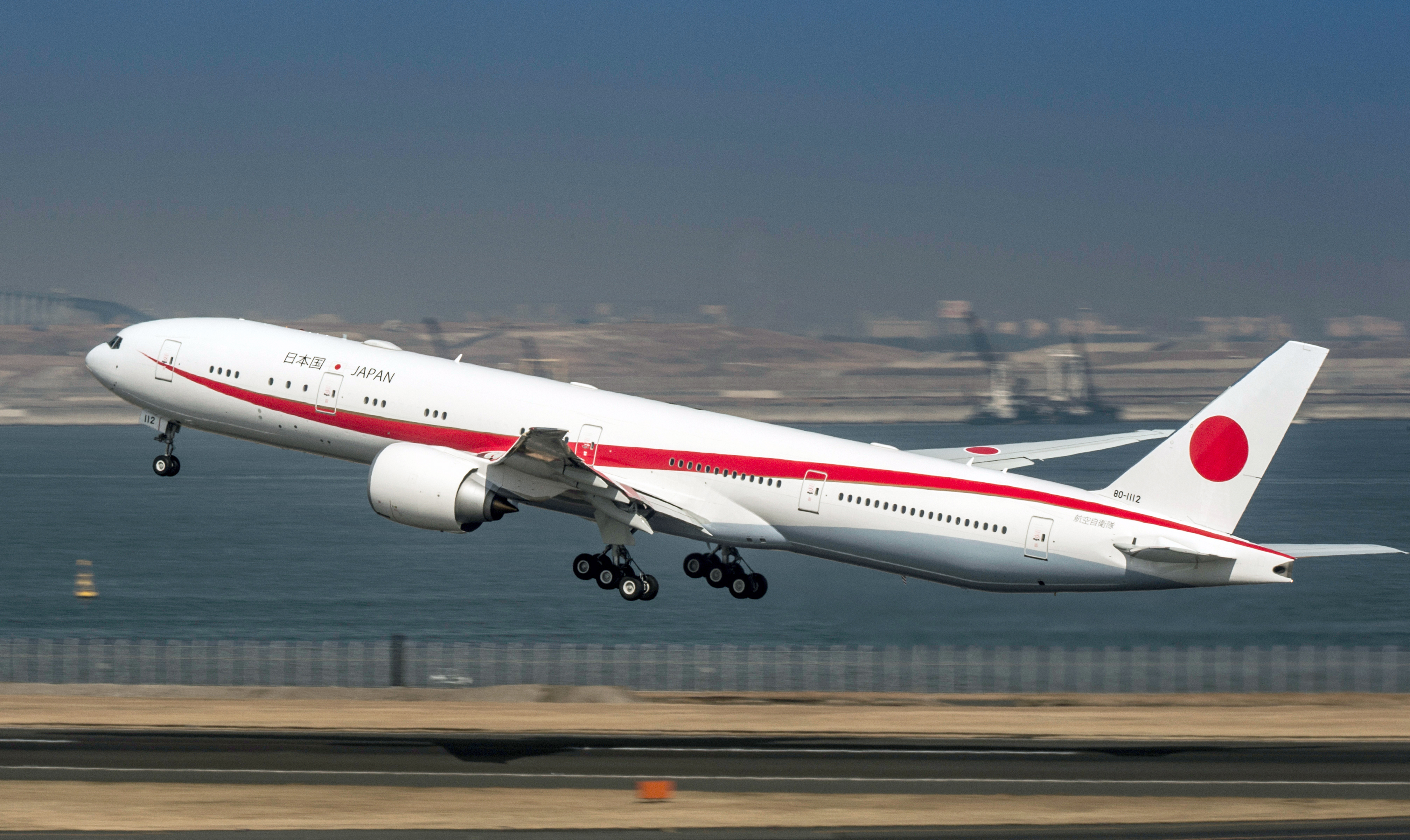 The second 777 operating as "Japanese Air Force One" (reg 80-1112) taking off from Haneda Airport.